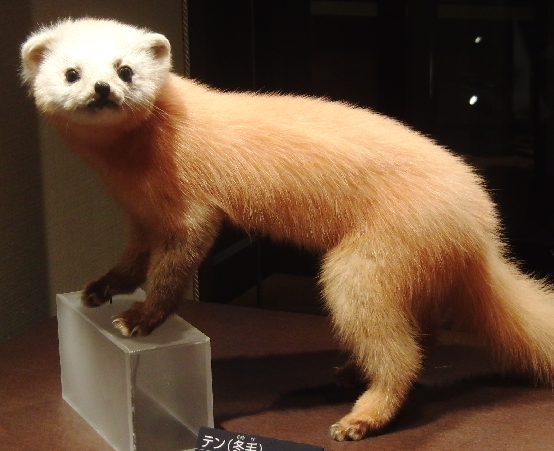 Stuffed specimen of Japanese marten (Martes melampus), exhibited in the National Museum of Nature and Science, Tokyo, Japan.